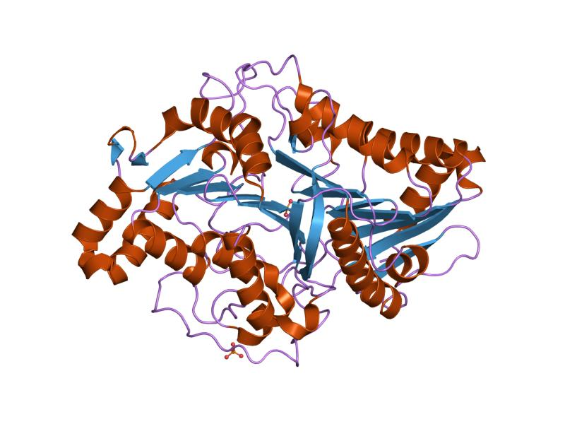 Cartoon representation of the molecular structure of protein registered with 1f0i code.